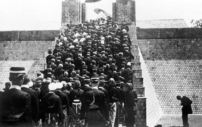 Burial ceremony of Pakubuwana X, king of Surakarta, at Imogiri royal cemetery. Europeans were not allowed to enter the complex.